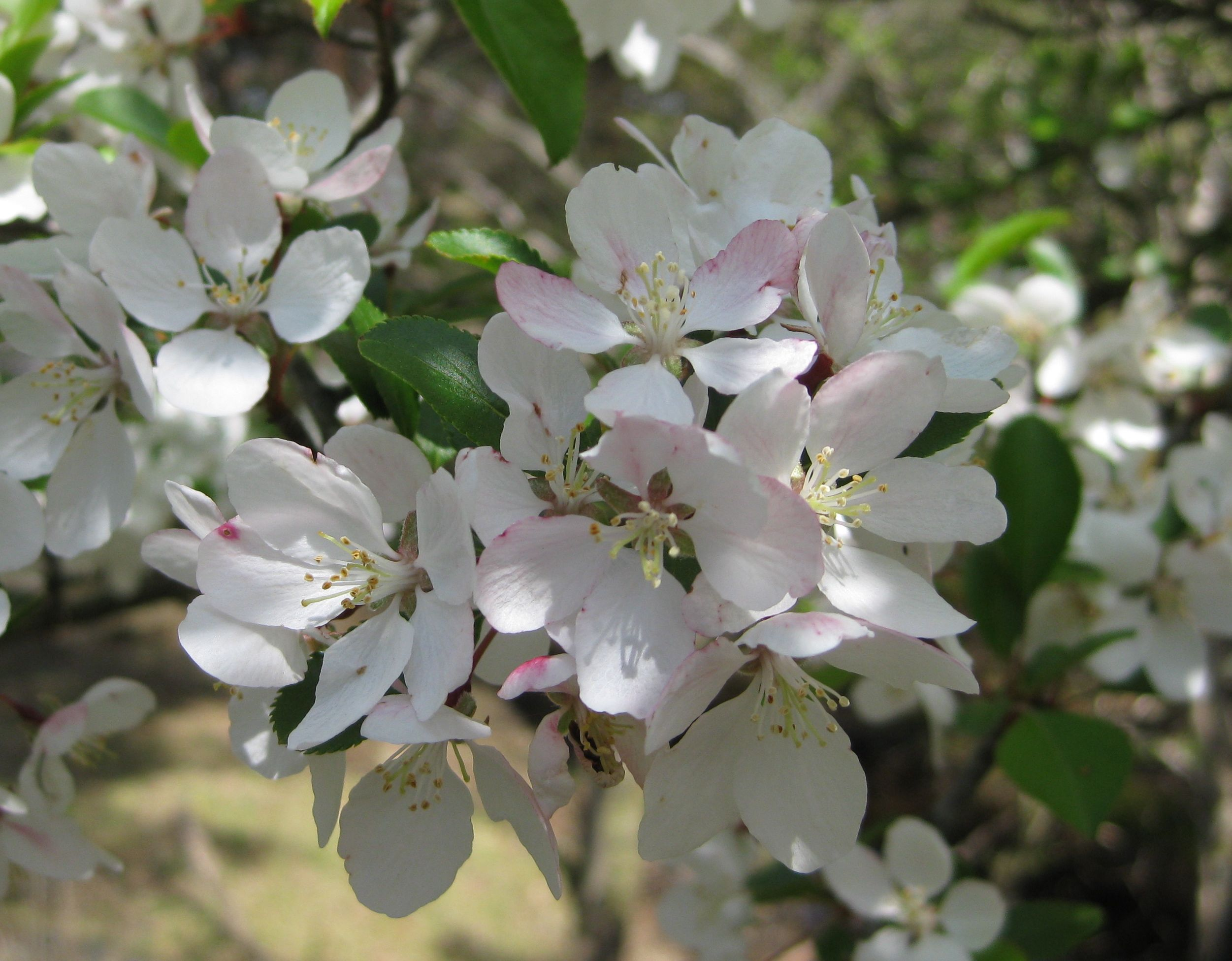 Nokaidou (Malus spontanea Makino) in Ebino Plateau, Japan